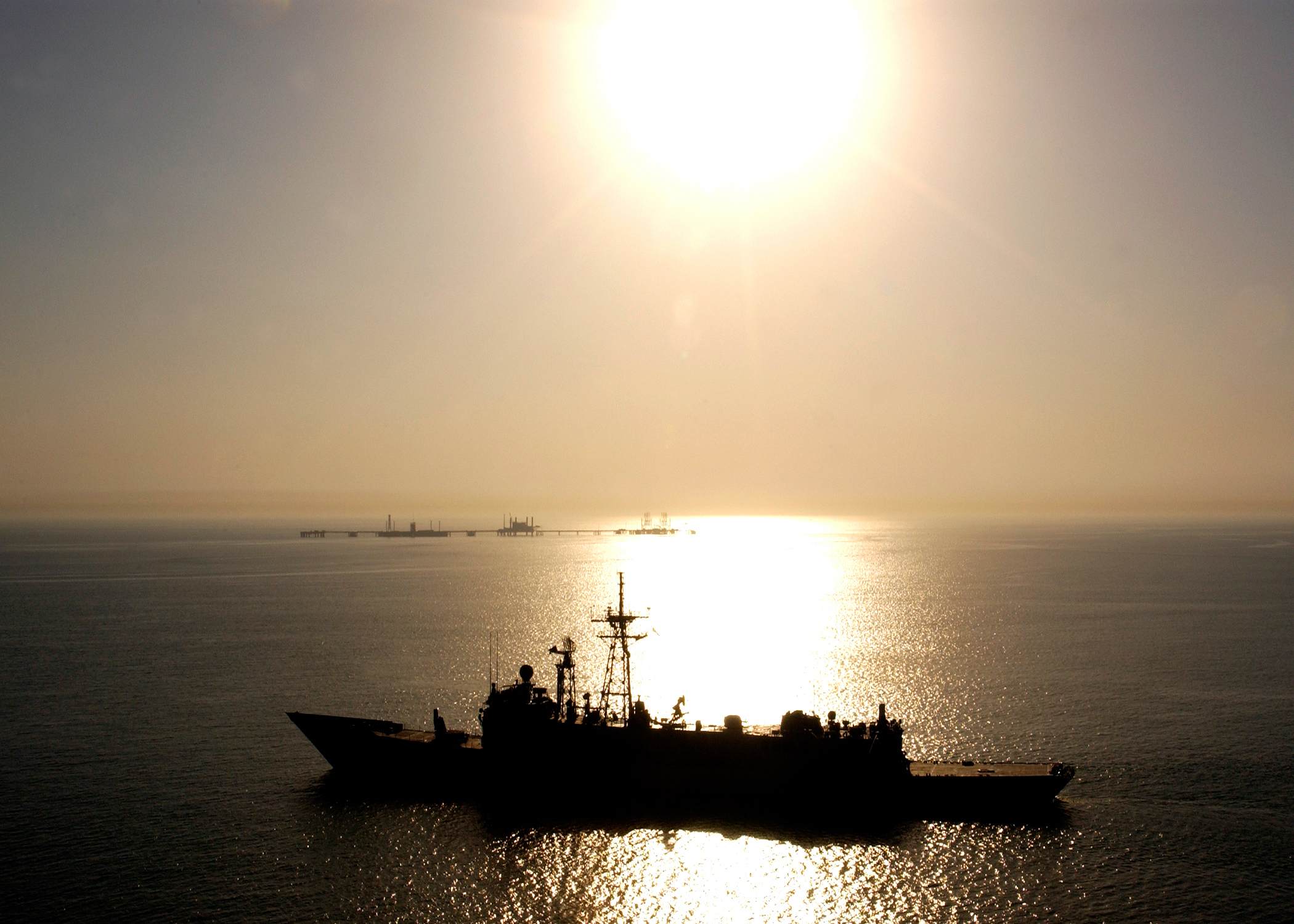 Arabian Gulf (Sept. 28, 2004) - The Royal Australian Navy guided missile frigate HMAS Adelaide (F01) conducts a patrol near the Khawr AL Amaya Oil Terminal (KAAOT) during joint operations with Coalition forces. Adelaide is an Australian-based ship assigned to Commander Task Force Five Eight (CTF-58) and is operating with Coalition forces in the Northern Arabian Gulf in support of Operation Iraqi Freedom (OIF). U.S. Navy photo by Photographer's Mate 2nd Class Samuel W. Shavers (RELEASED)